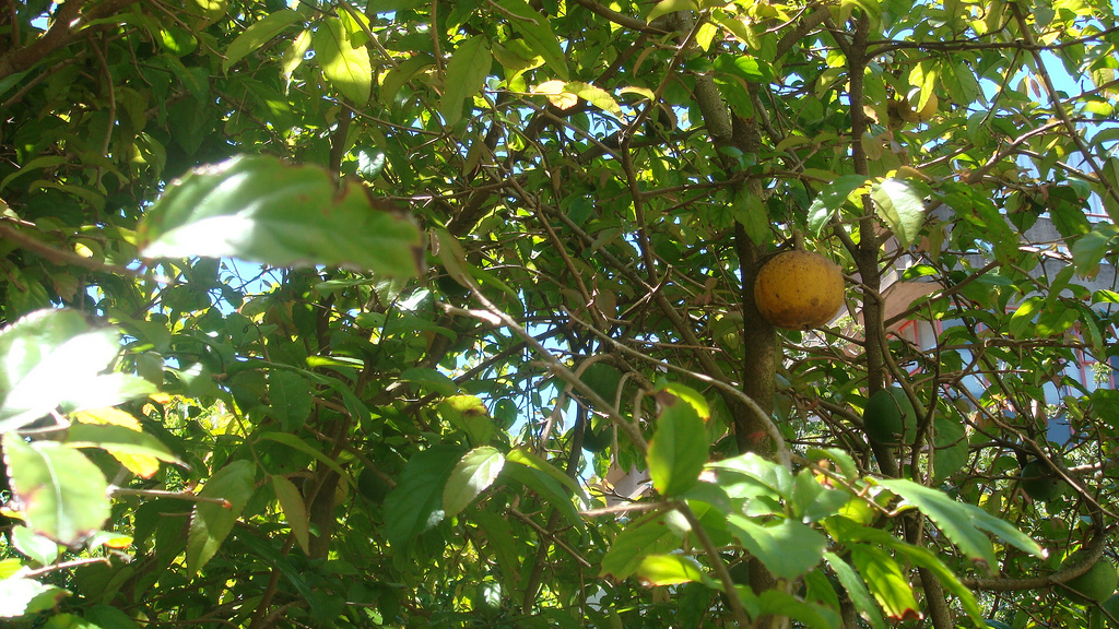 Fruiting Oncoba spinosa. Taken at the University of Auckland, this tree can be found near the Biology Building. The tree has thorny defenses and very interesting fruit, very hard to break into and loaded with seeds. It would be interesting to read more about it. As you can see, the fruits ripen at different times, some being green, others very ripe. The sign below the tree reads: "Oncoba spinosa FLACOURTIACEAE AFRICA, ARABIA"